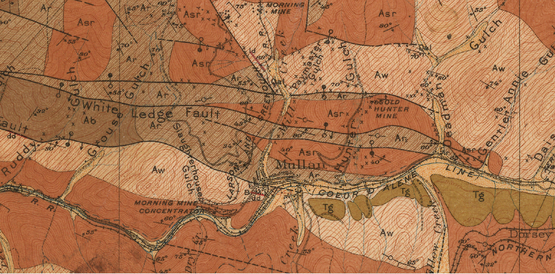 1907 Mullan Idaho geologic map, where m is monzonite and syenite, Ap is Prichard Slate, Ab is Burke Formation, Ar is Revett Quartzite, Asr is St. Regis Formation, Aw is Wallace Formation, Asp is Striped Peak Formation, Tg are Tertiary terrace gravels, Qgl is Quaternary glacial deposits, Qal is Quaternary alluvium, x is a prospect pit and y is a tunnel